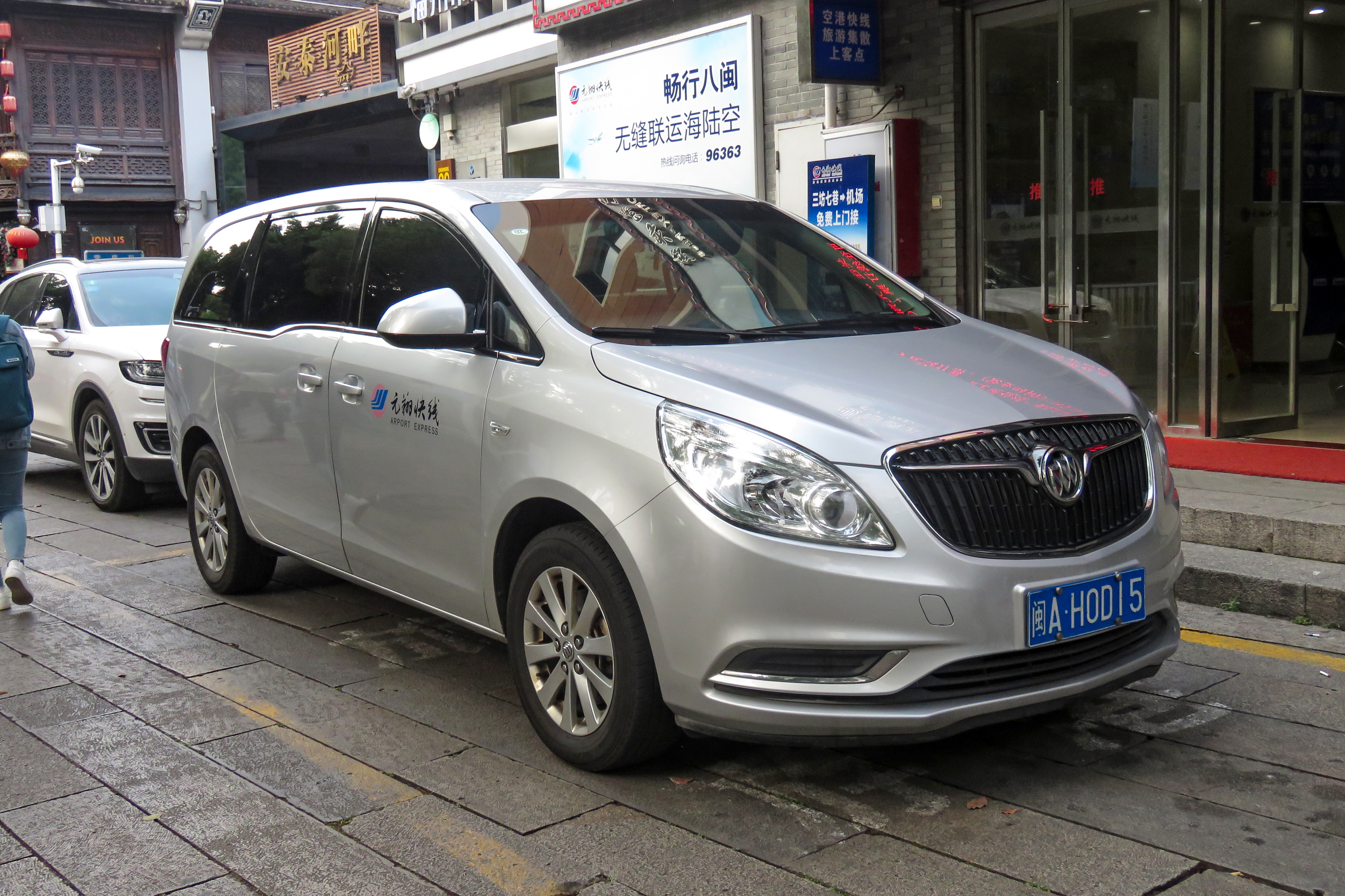 Some airport bus routes are run by GL8 with a fare of CNY50.